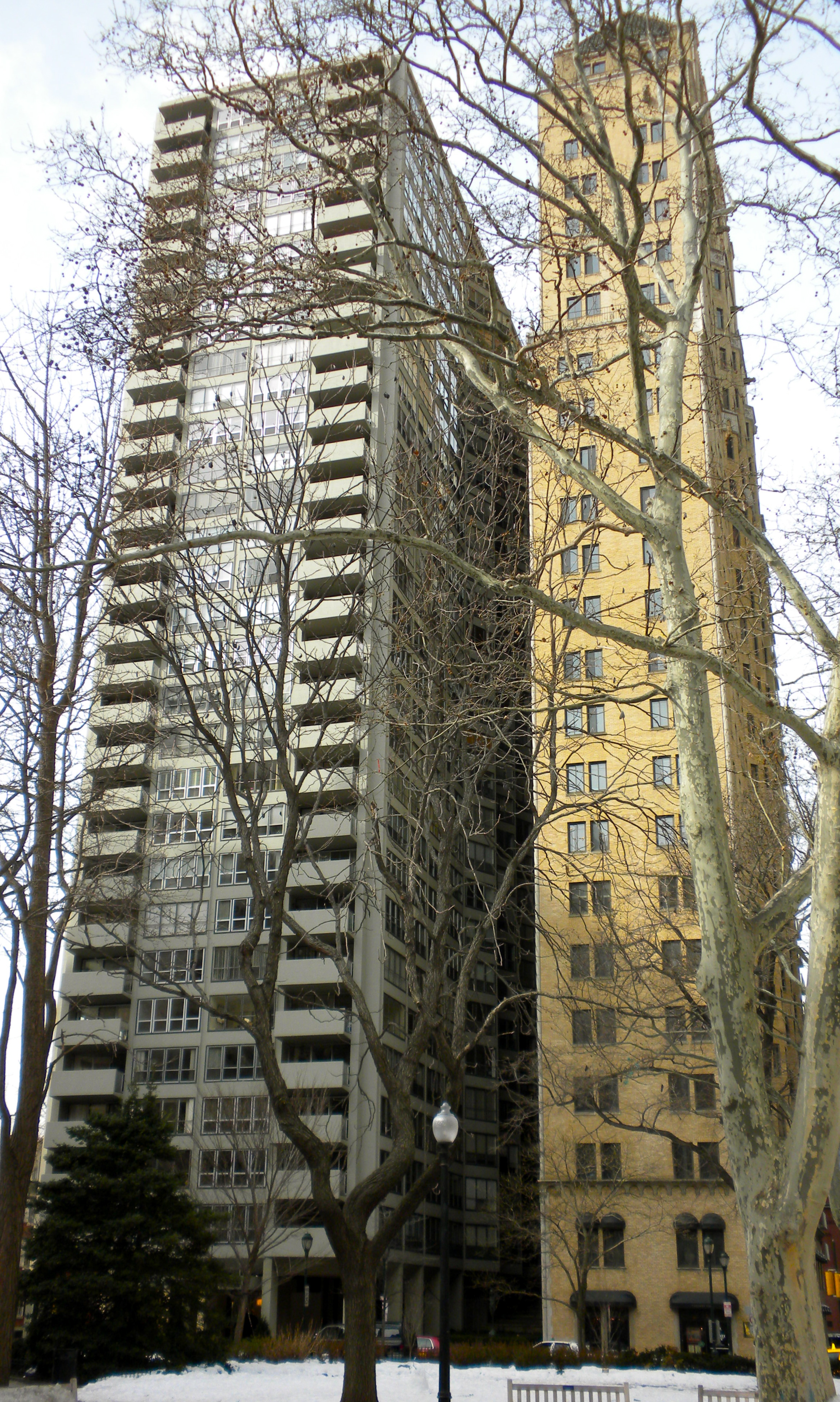 Chateau Crillon Apartment House (the older building on the right) on Rittenhouse Square in Center City Philadelphia. On NRHP since April 25, 1978 222 South 19th Street. Horace Trumbauer, architect.